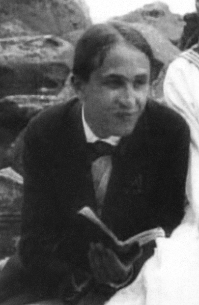 Lev Kuleshov in Yevgeni Bauer's Za schastem